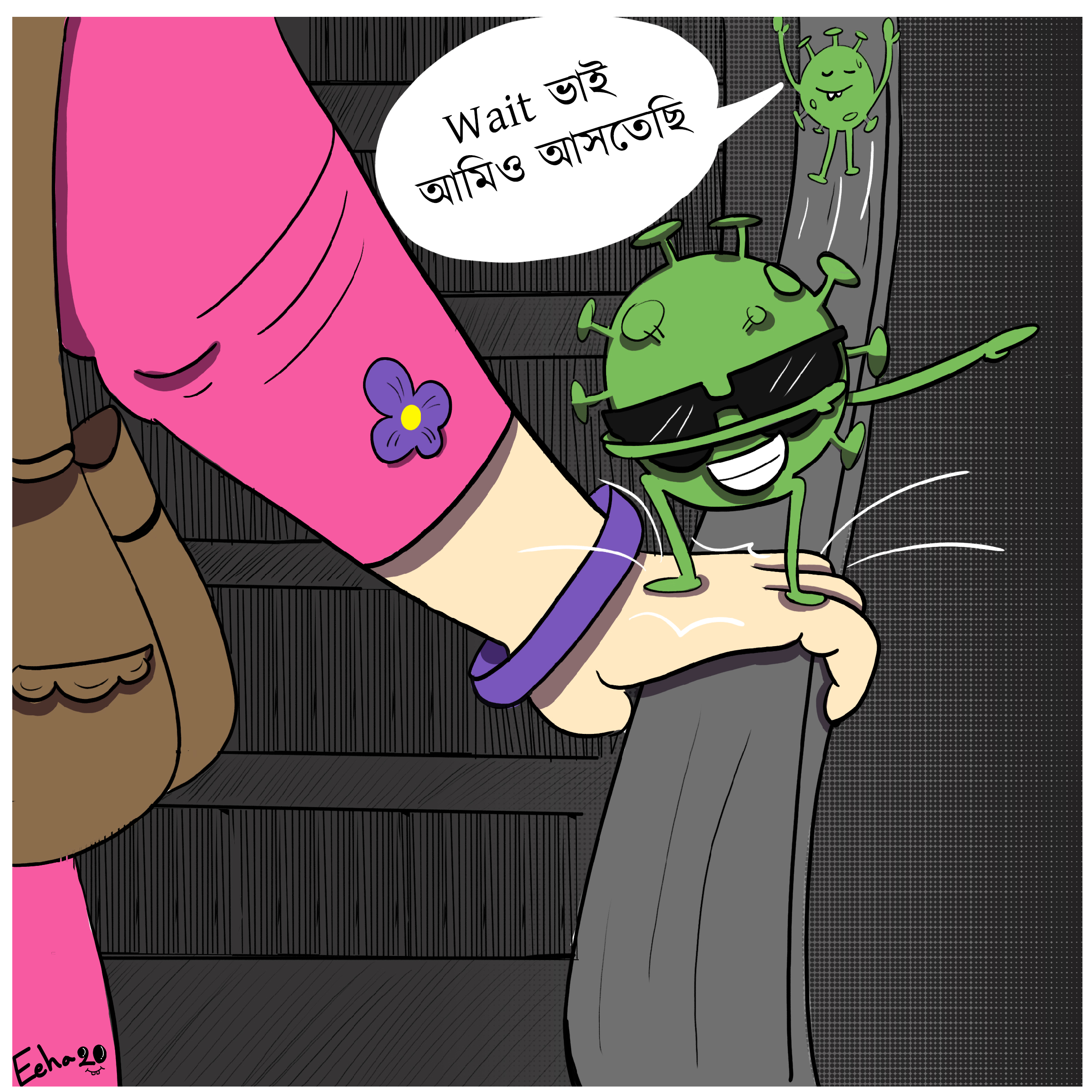 Artist, Visualization & dialogue : Anika Nawar Eeha Concept: Abdullah Al Mamun